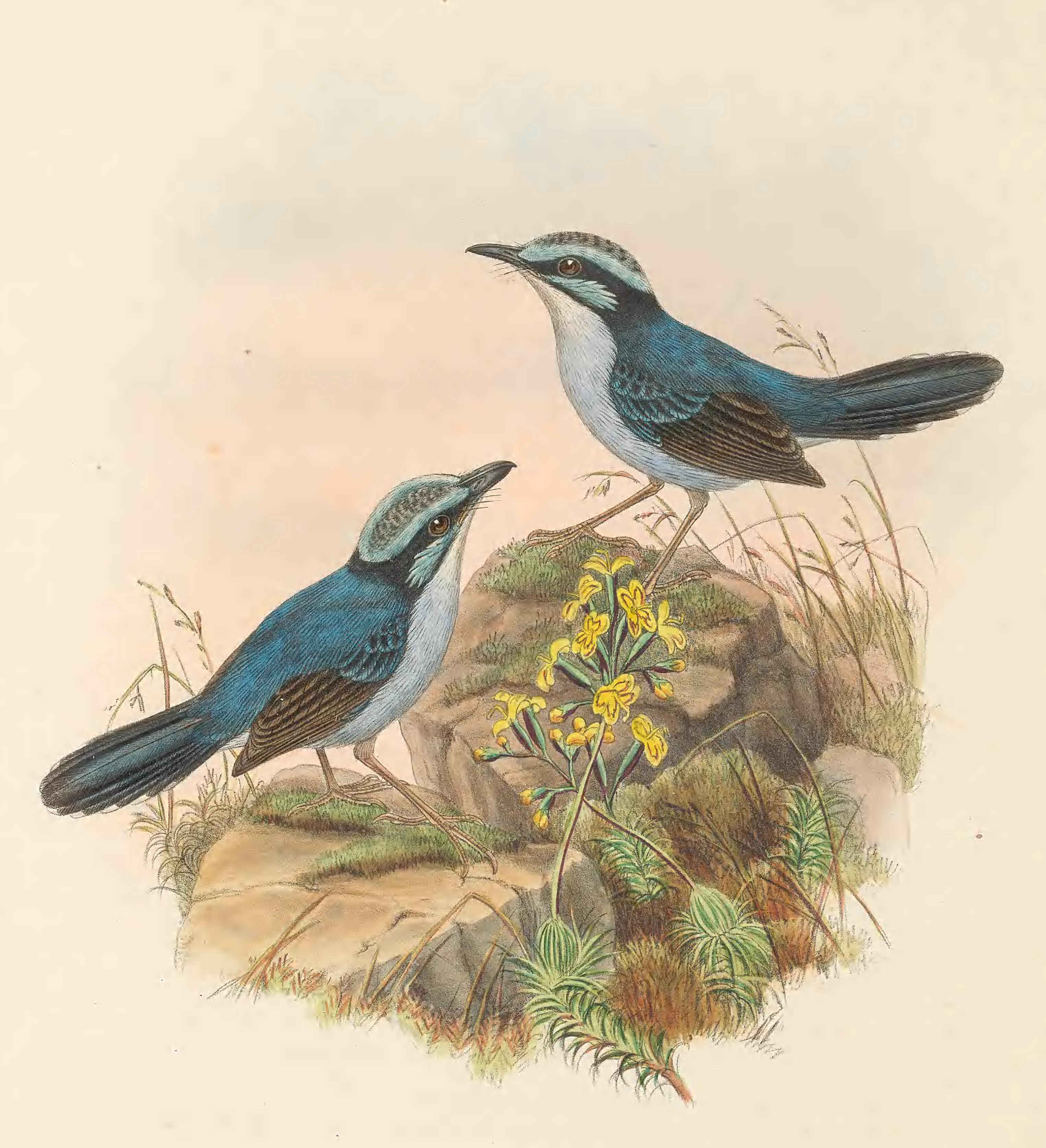 Todopsis grayi = Chenorhamphus grayi - The birds of New Guinea and the adjacent Papuan islands : including many new species recently discovered in Australia. v.2 (Plate 24).